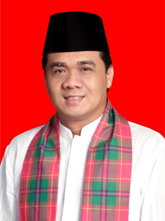 Portrait of Ahmad Riza Patria as deputy governor candidate for 2012 DKI Jakarta Governor General Election.